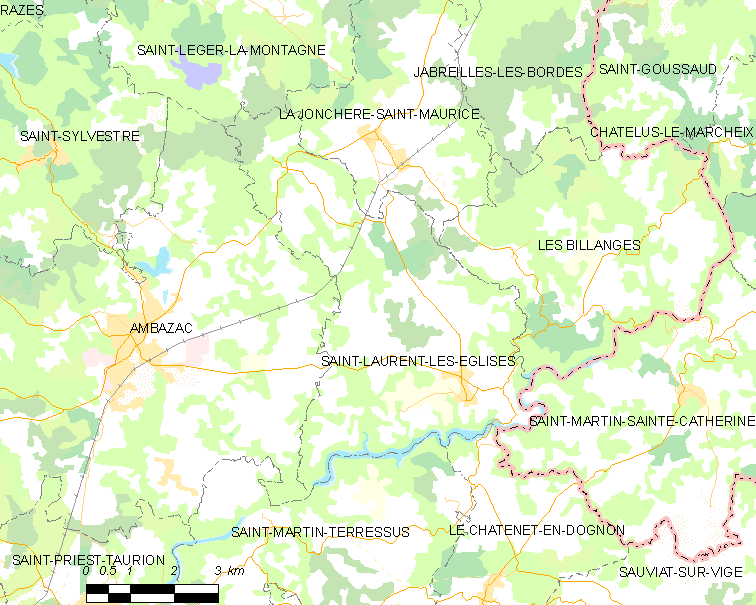 Map of French municipality Saint-Laurent-les-Églises